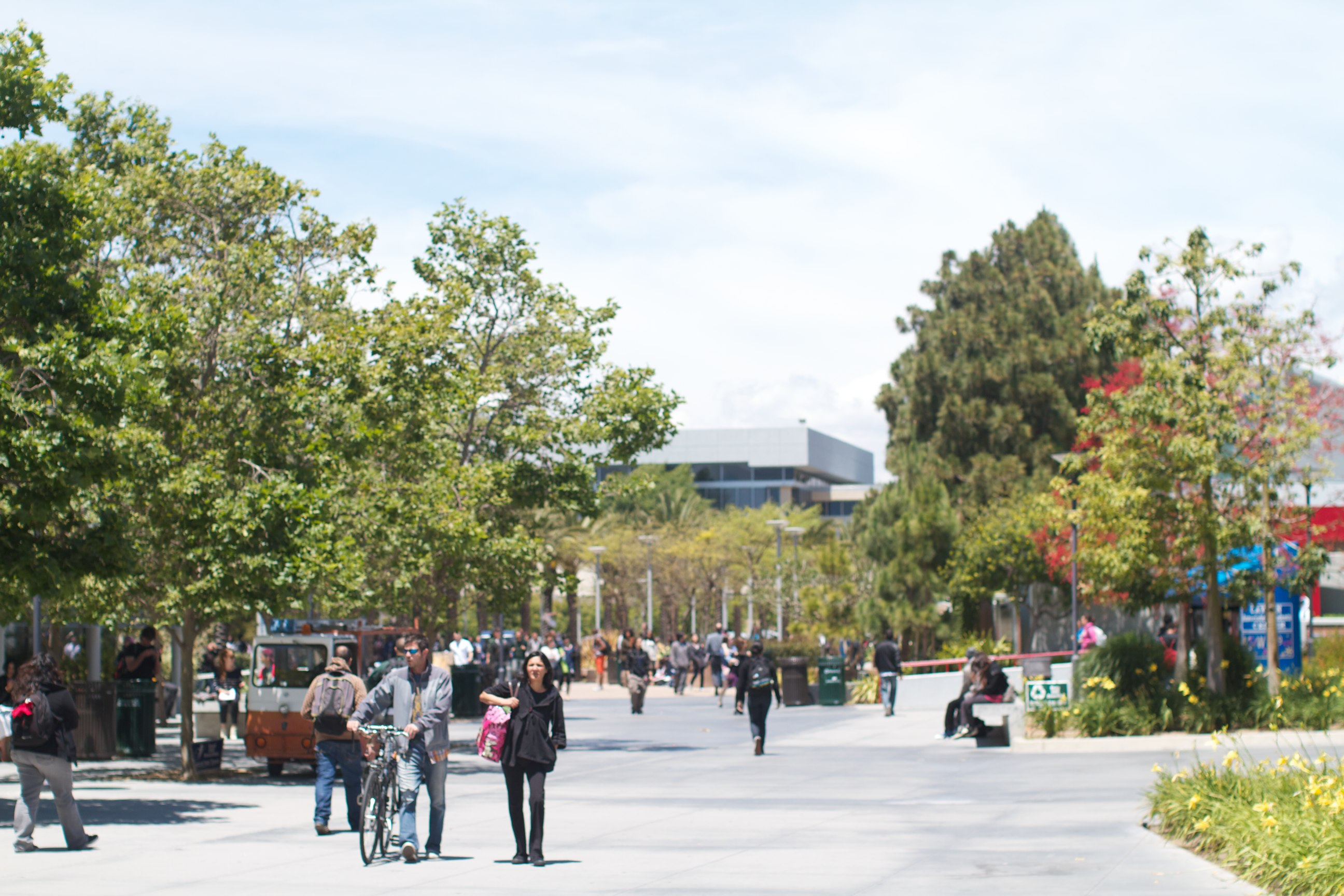 Santa Monica College — Campus Boardwalk. 2011